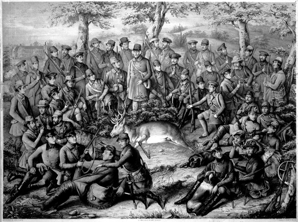 Friedrich Wilhelm Leopold Pfeil (1783-1859), German forestry scientist, and his students 1848 hunting in the Chorin forest near Eberswalde.